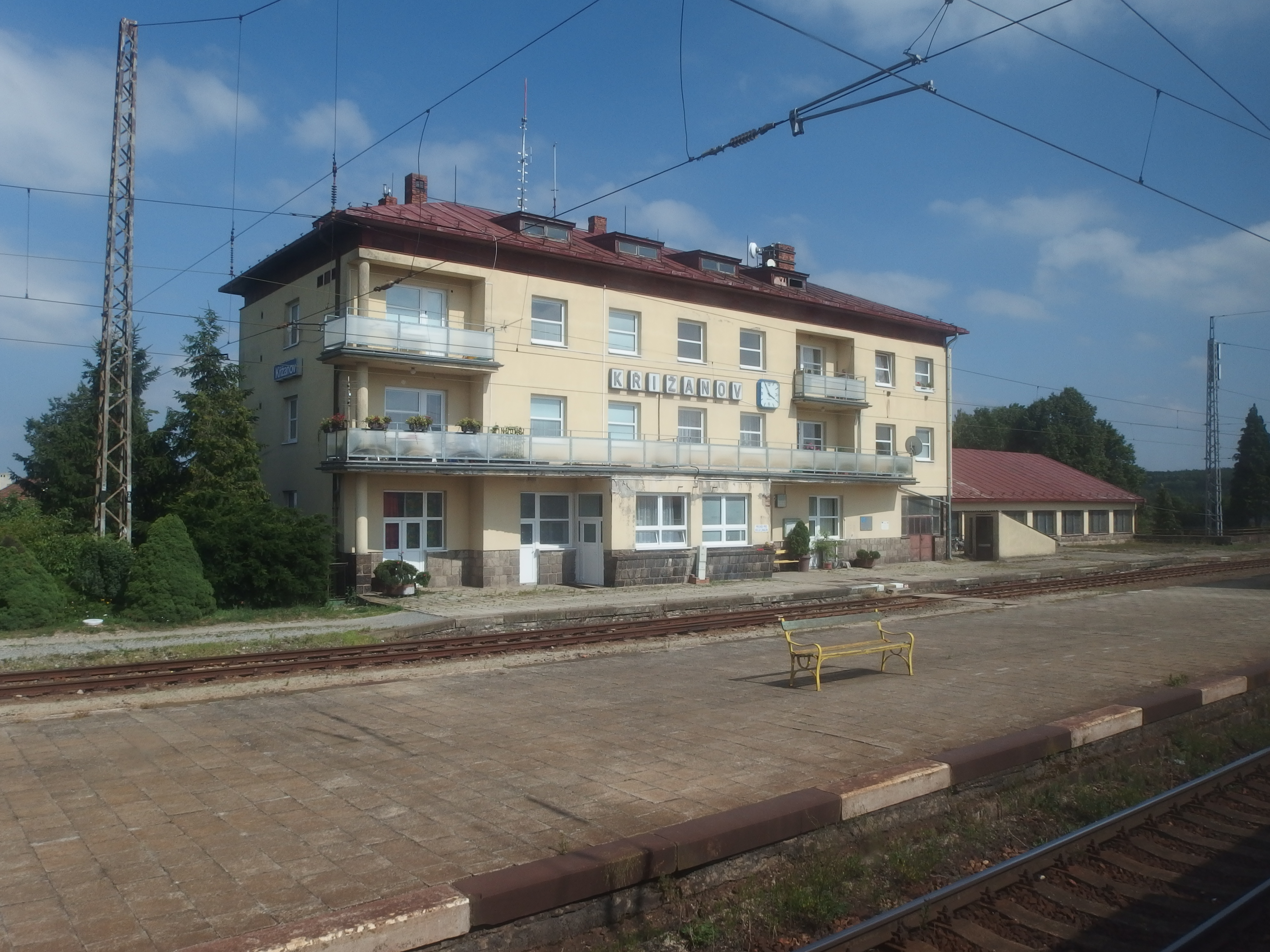 Křižanov, Žďár nad Sázavou District, Czechia.